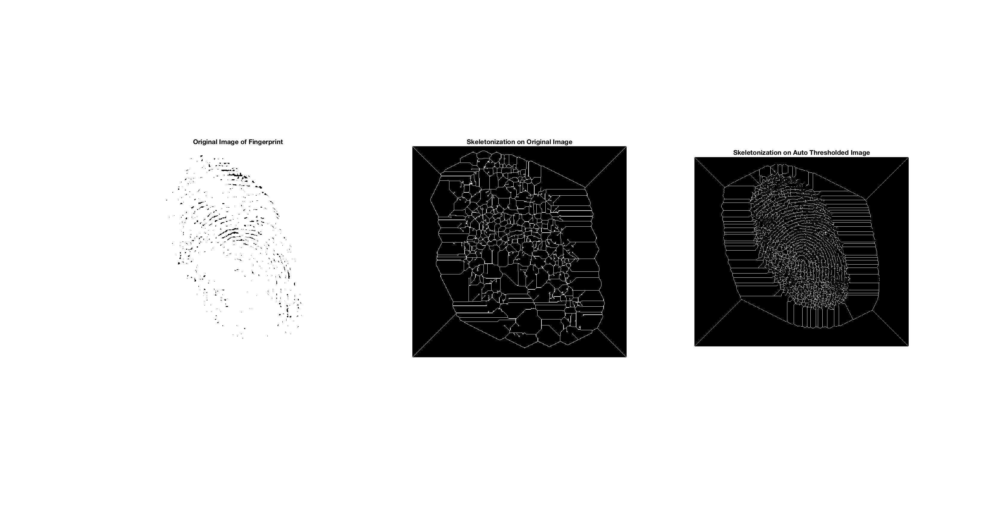 Picture showing original finger print and various imaging techniques to extract fingerprint